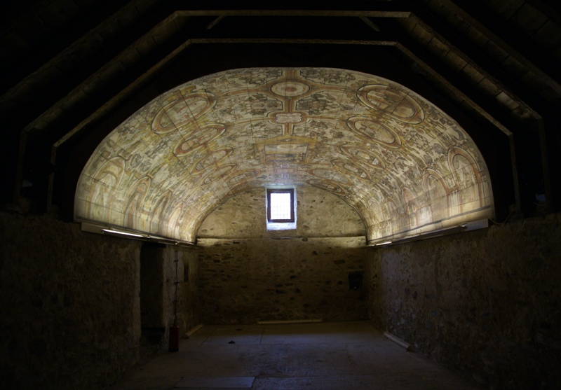 St Mary's Church, Grandtully, Perth and Kinross, Scotland - interior, looking east